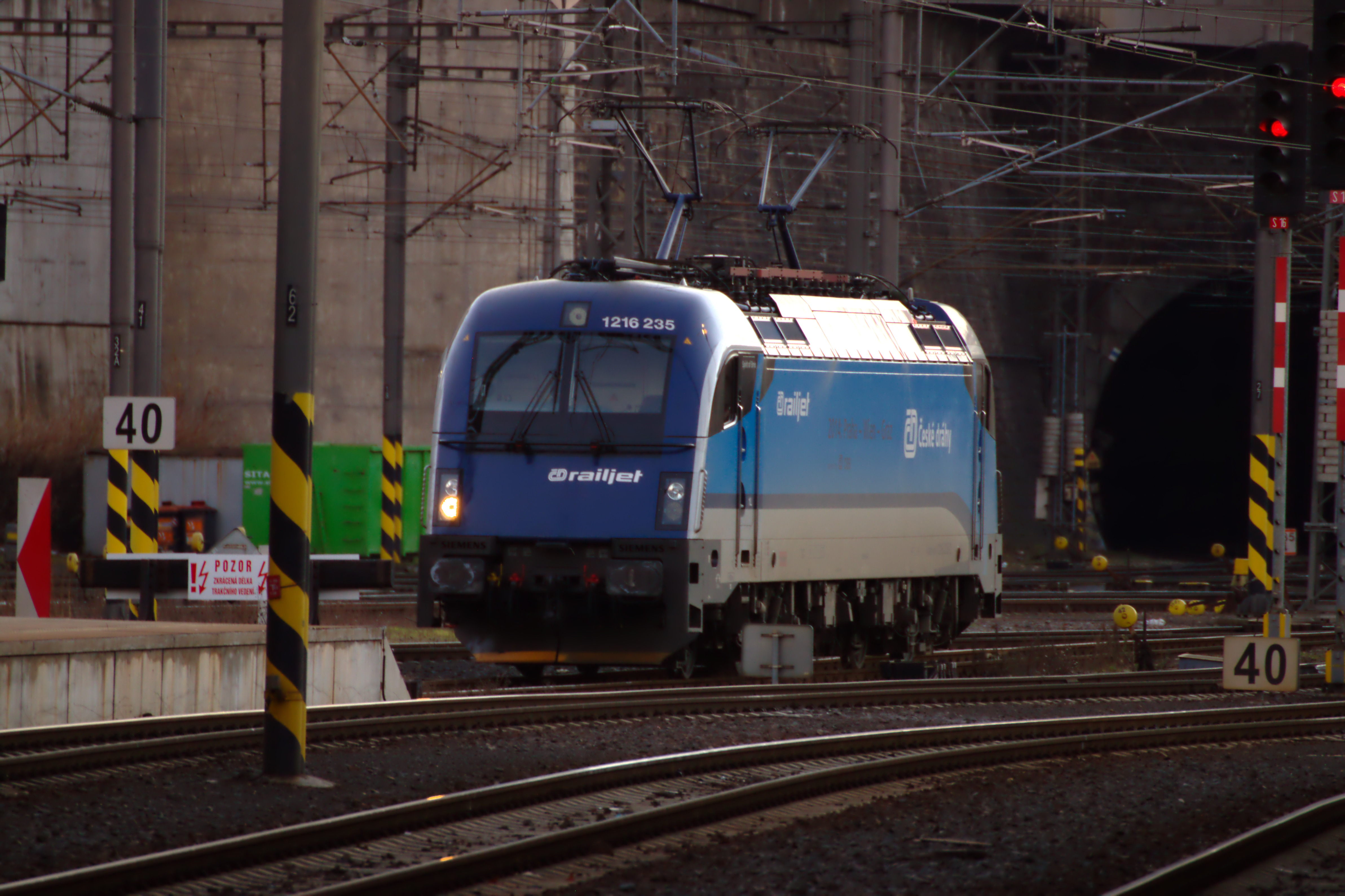 Railjet locomotive, Prague, main train station